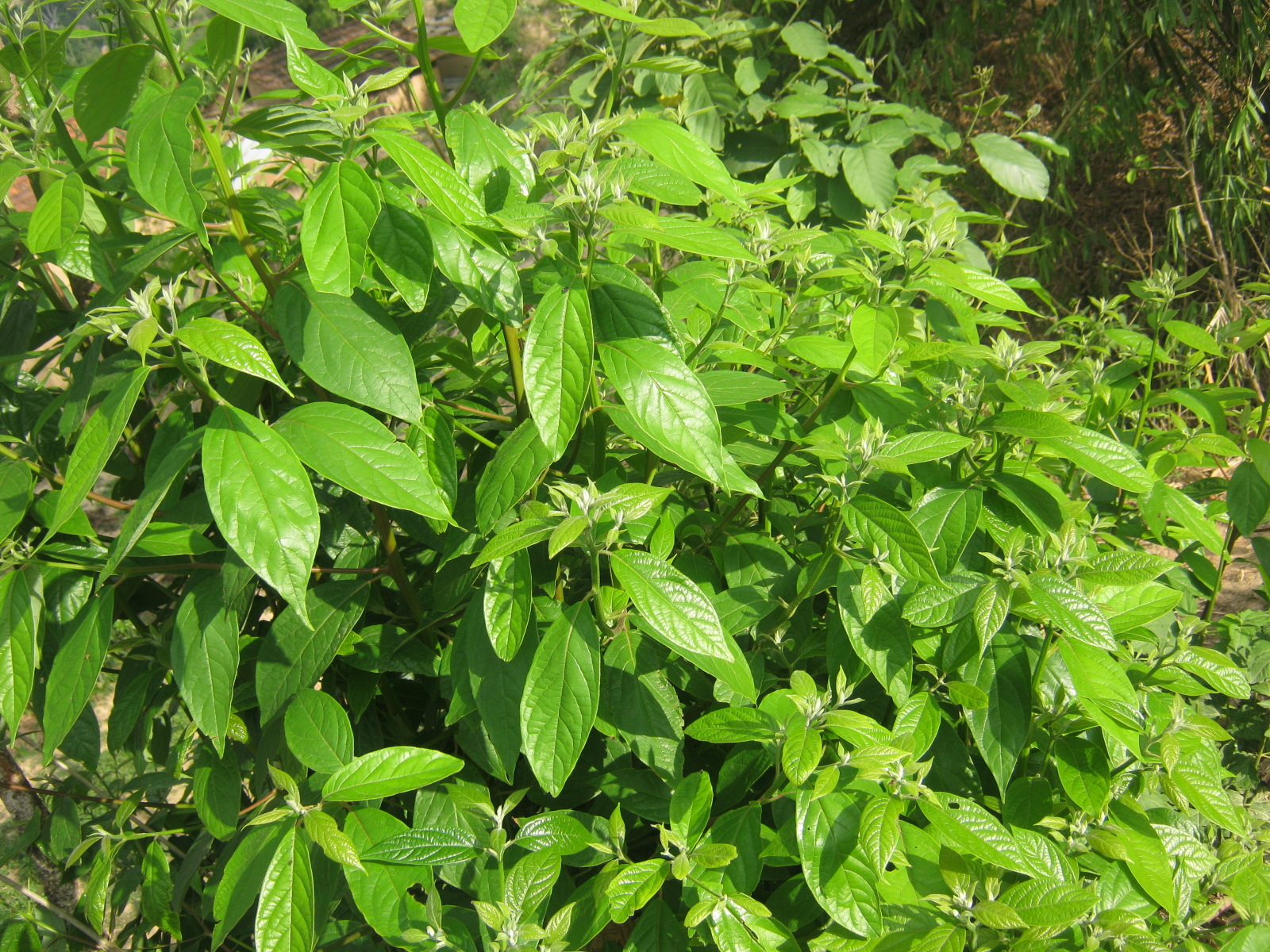 Cinnamomum glaucescens plant in Nepal.